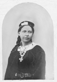 Olafia spent most of her life in Norway providing charitable care to poor women in hospitals.